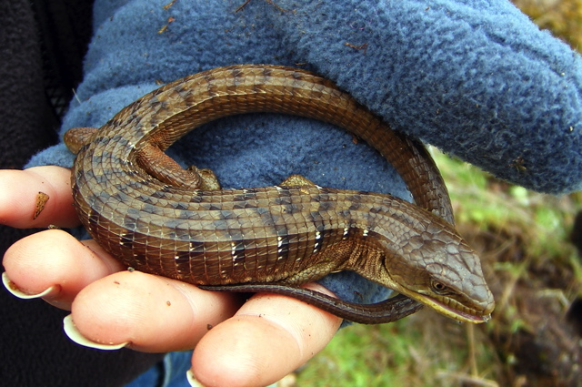 Elgaria coerulea from northern California.